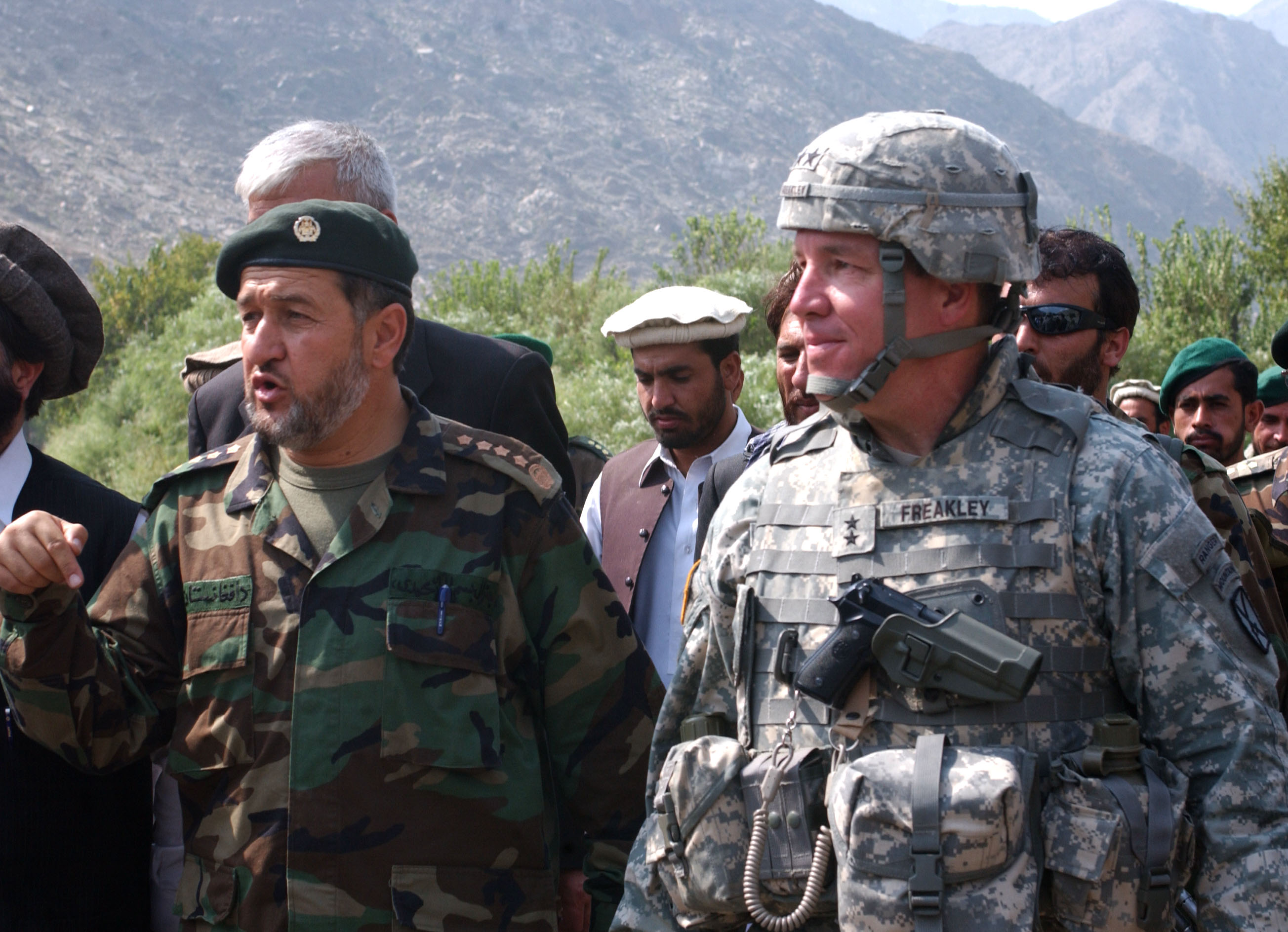 FORWARD OPERATING BASE GHAZNI, Afghanistan Afghan National Army Gen. Bismullah Kahn, the ANA chief of staff, and Army Maj. Gen. Benjamin C. Freakley, the Combined Joint Task Force-76 commander, cross the new bridge spanning the Pech River in Kunar Province Monday.